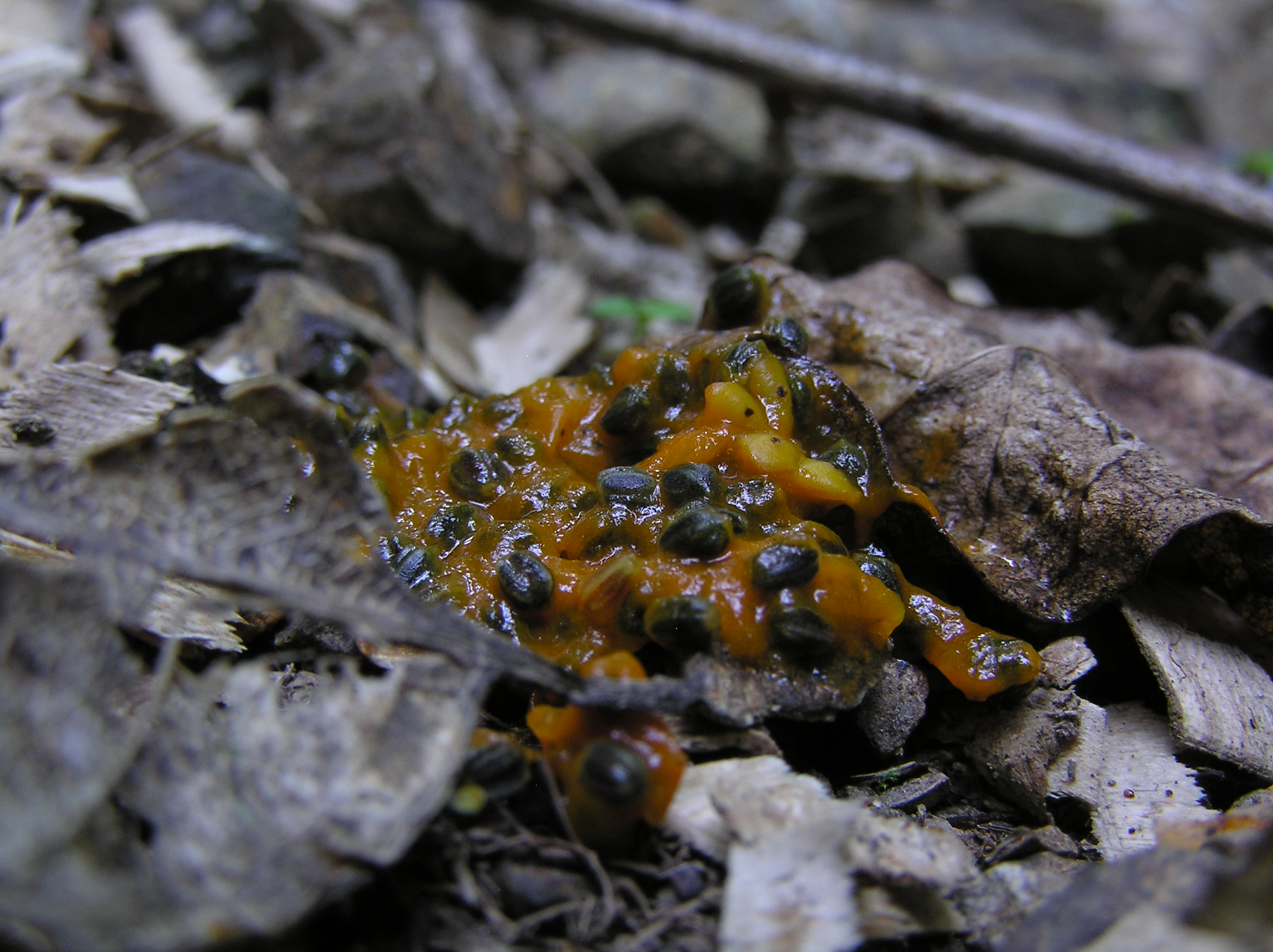 Fresh Kererū (New Zealand wood pigeon) droppings on the forest floor, after one has been feeding on native passion fruit. Karori, Wellington, New Zealand.